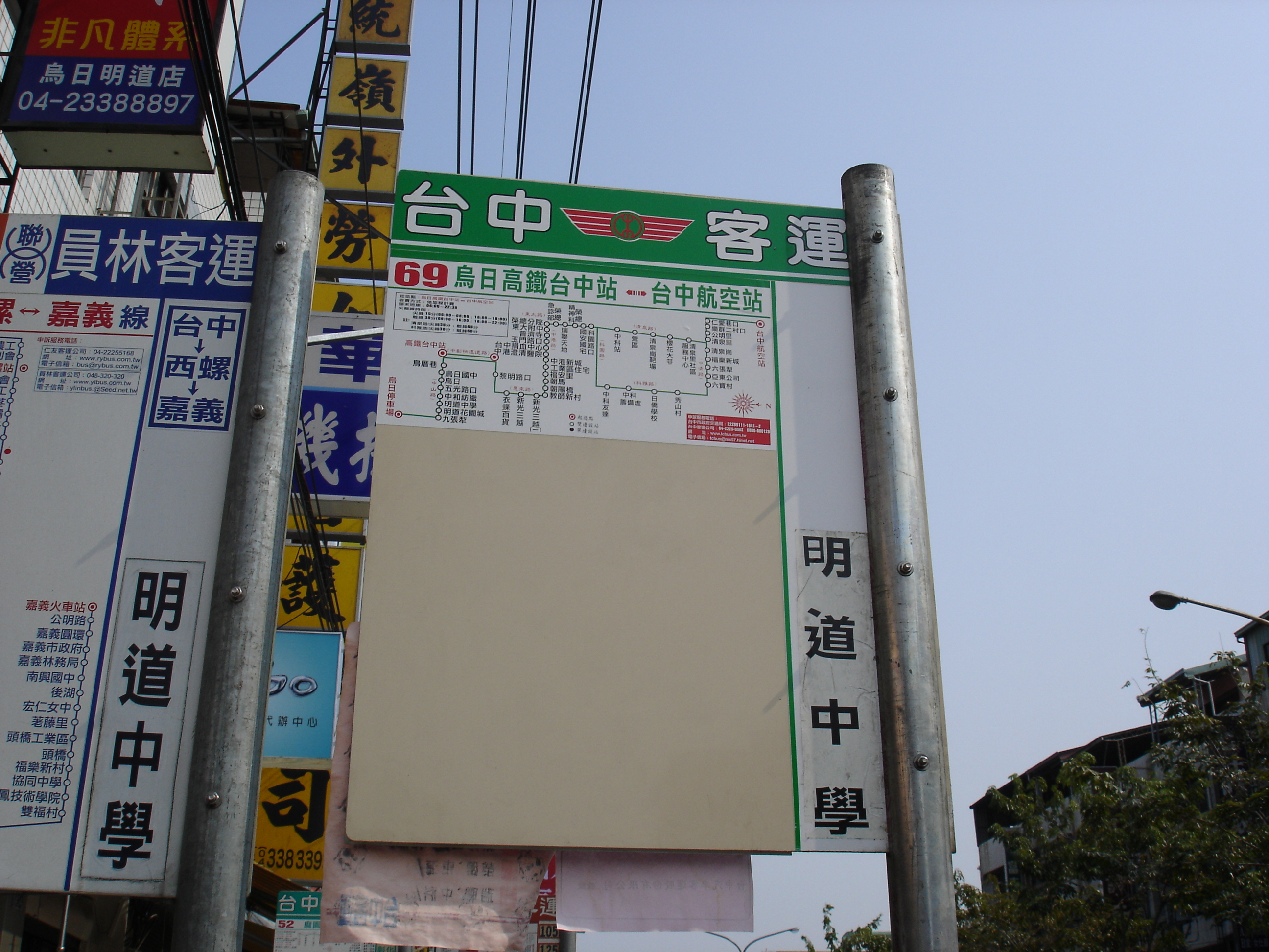 Bus stop board "Ming-Dao High School" of Taichung City Bus Route 69.